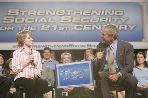 President George W. Bush talks with Colleen Rummel during a conversation on Social Security at the James Lee Community Center, Falls Church, Va., Friday, April 29, 2005.